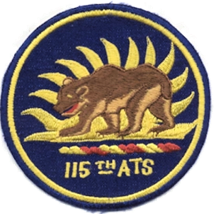 115th Air Transport Squadron - Emblem Van Nuys Air National Guard Base, California